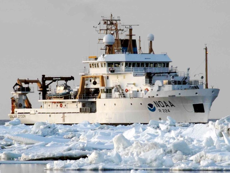 The National Oceanic and Atmospheric Administration fisheries and oceanographic research ship NOAAS Oscar Dyson (R 224)